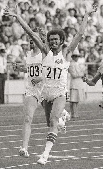 Press Photo Cuban athlete Alberto Juantorena is subject of PBS WORLD Series